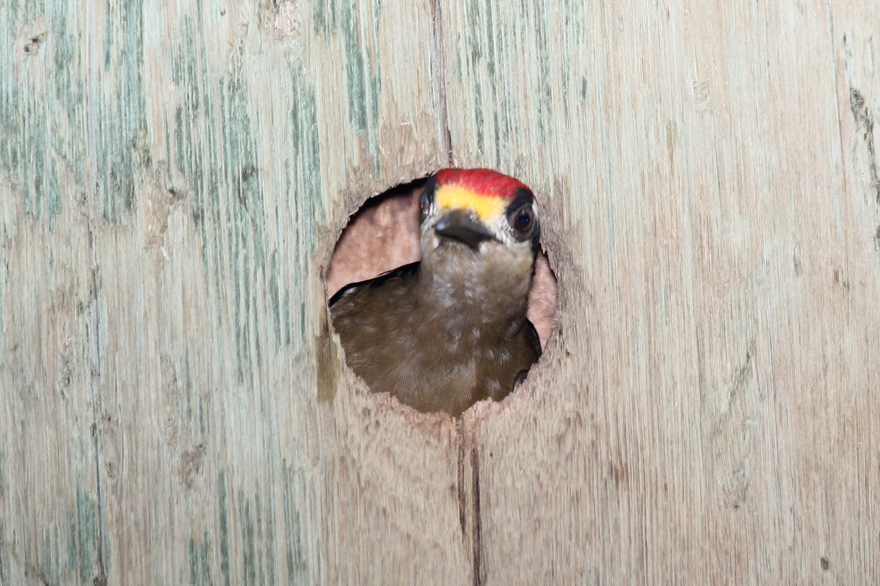 Photographed at Tortuguro National Park, Costa Rica.